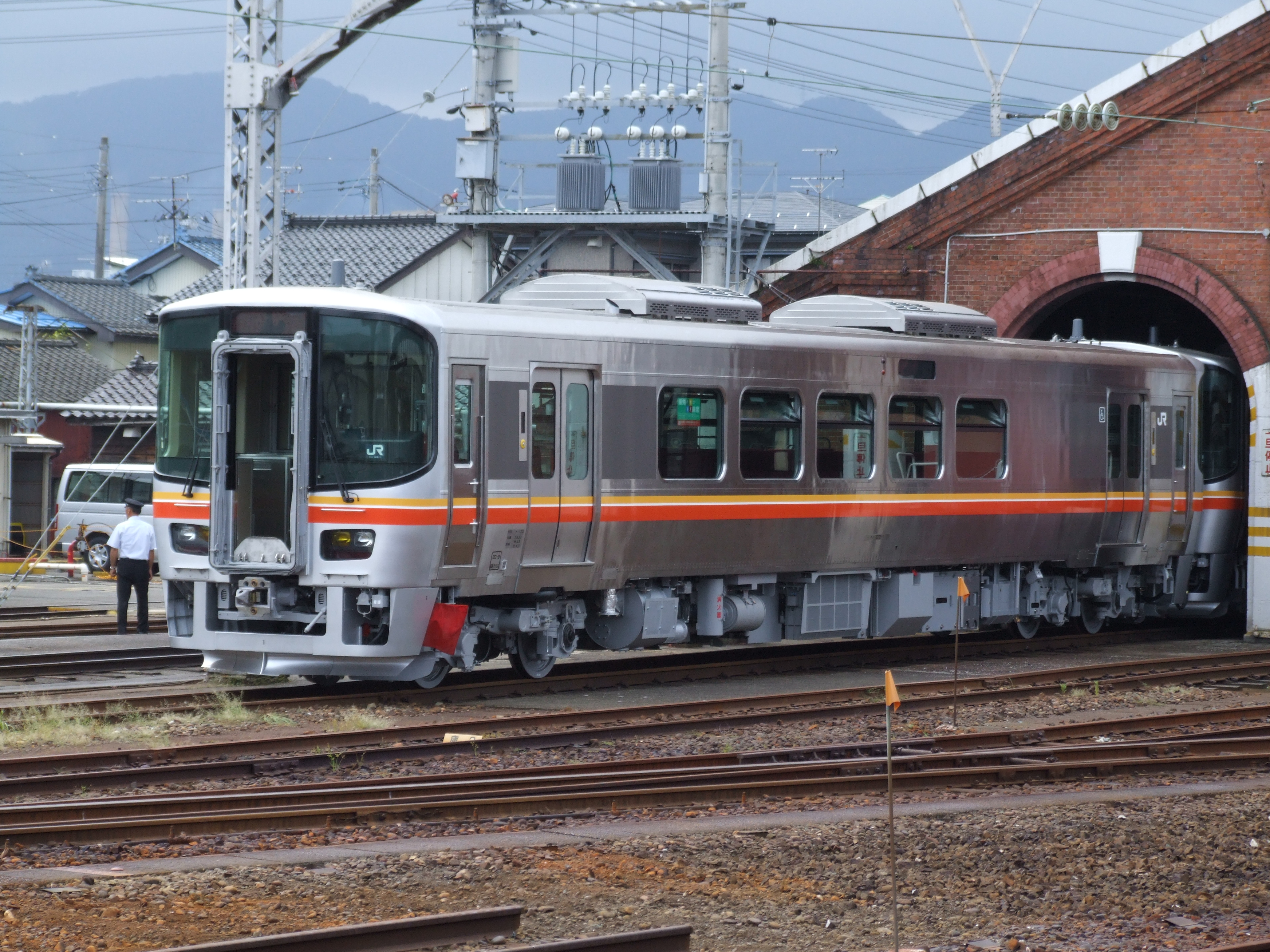 JR West KiHa 122 DMU next to Itoigawa Station during test running, 20 September 2008